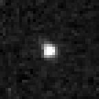 Hubble Space Telescope image of the centaur 52975 Cyllarus, taken on 2 January 2010.